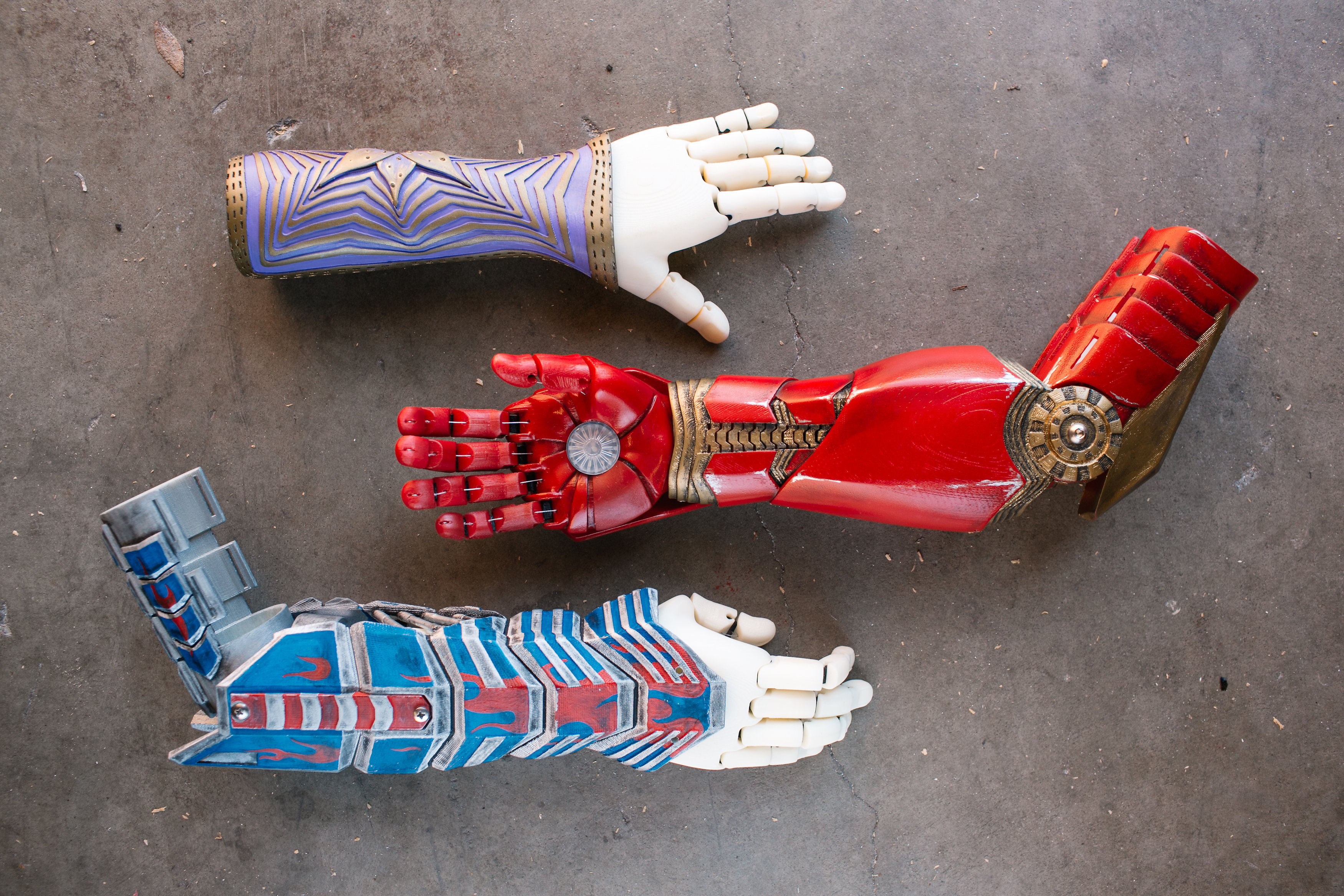 These are three v1 Bionic Arms created by Limbitless Solutions.